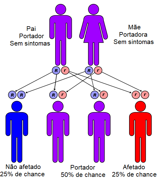 Autossomic recessive gene hereditability.